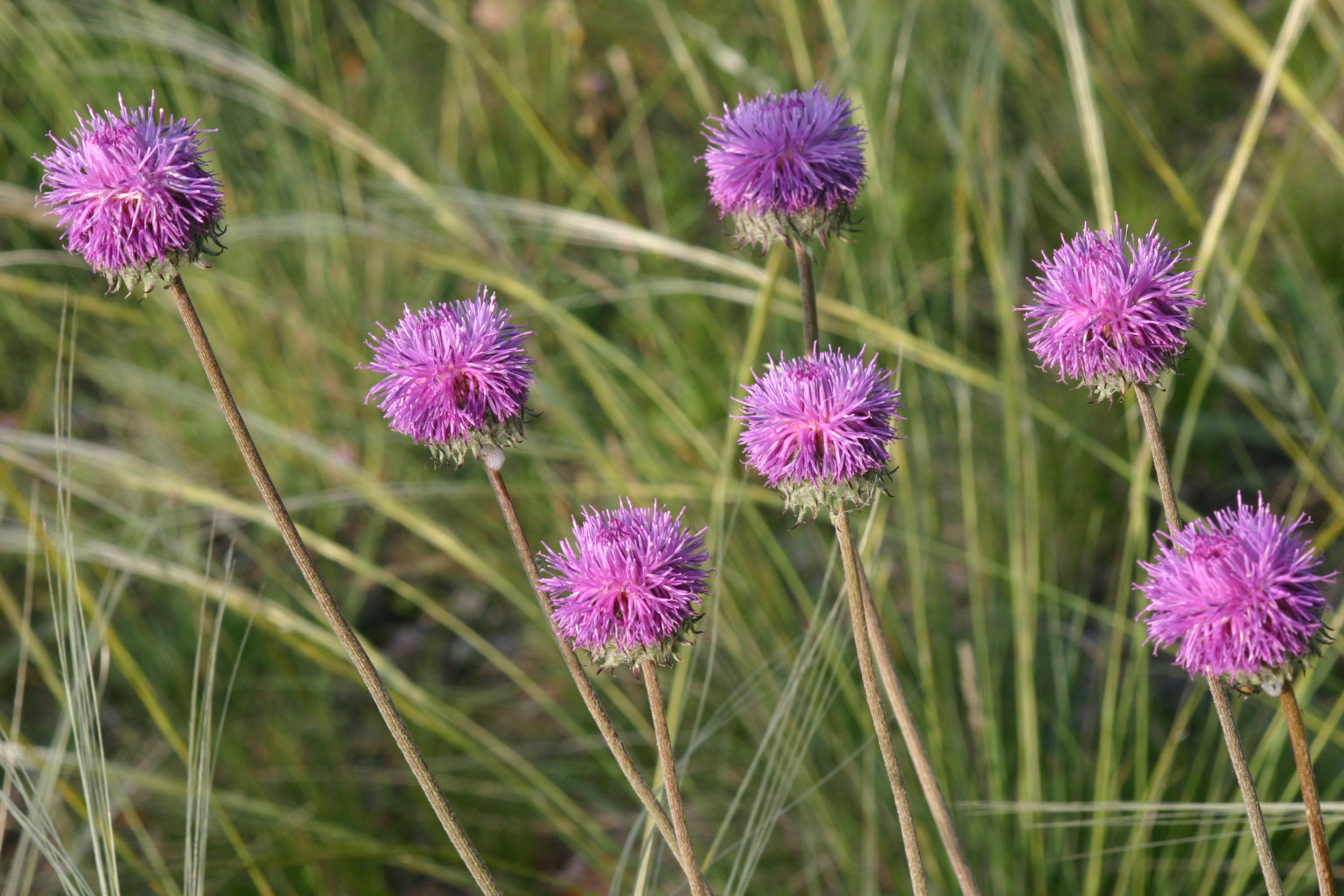 Jurinea mollis